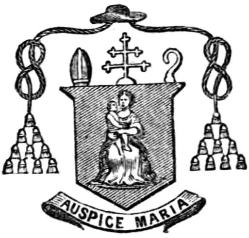 Coat of arms of Martin John Spalding, Archbishop of Baltimore, from his Pastoral Letter Promulgating the Jubilee (1865)